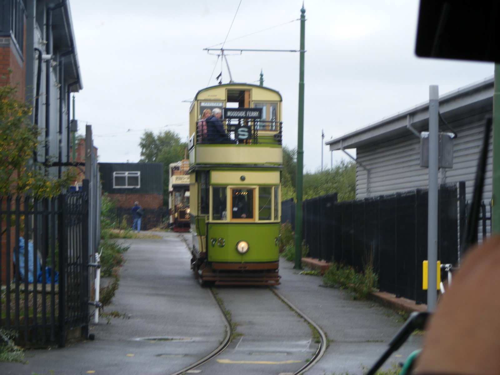 Wallasey Corporation Tramways 78, a tram operating services and seen at the Wirral Bus & Tram Show 2008.